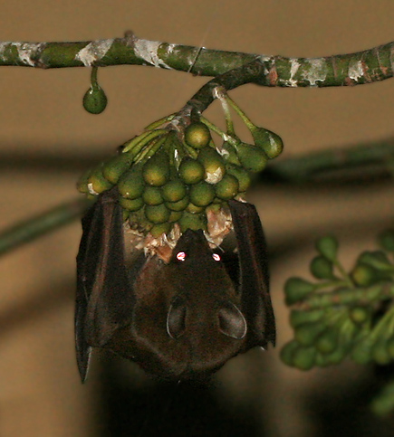 Greater short-nosed fruit bat Cynopterus sphinx in Kolkata, West Bengal, India.